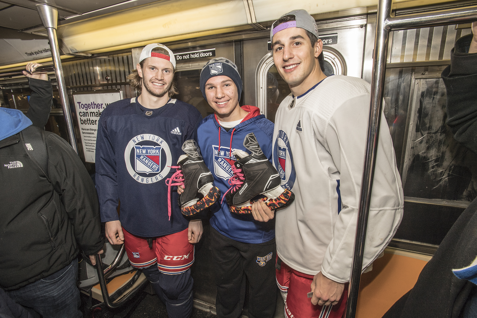 Jacob Trouba and Brady Skjei riding the subway to Lasker Rink in Central Park